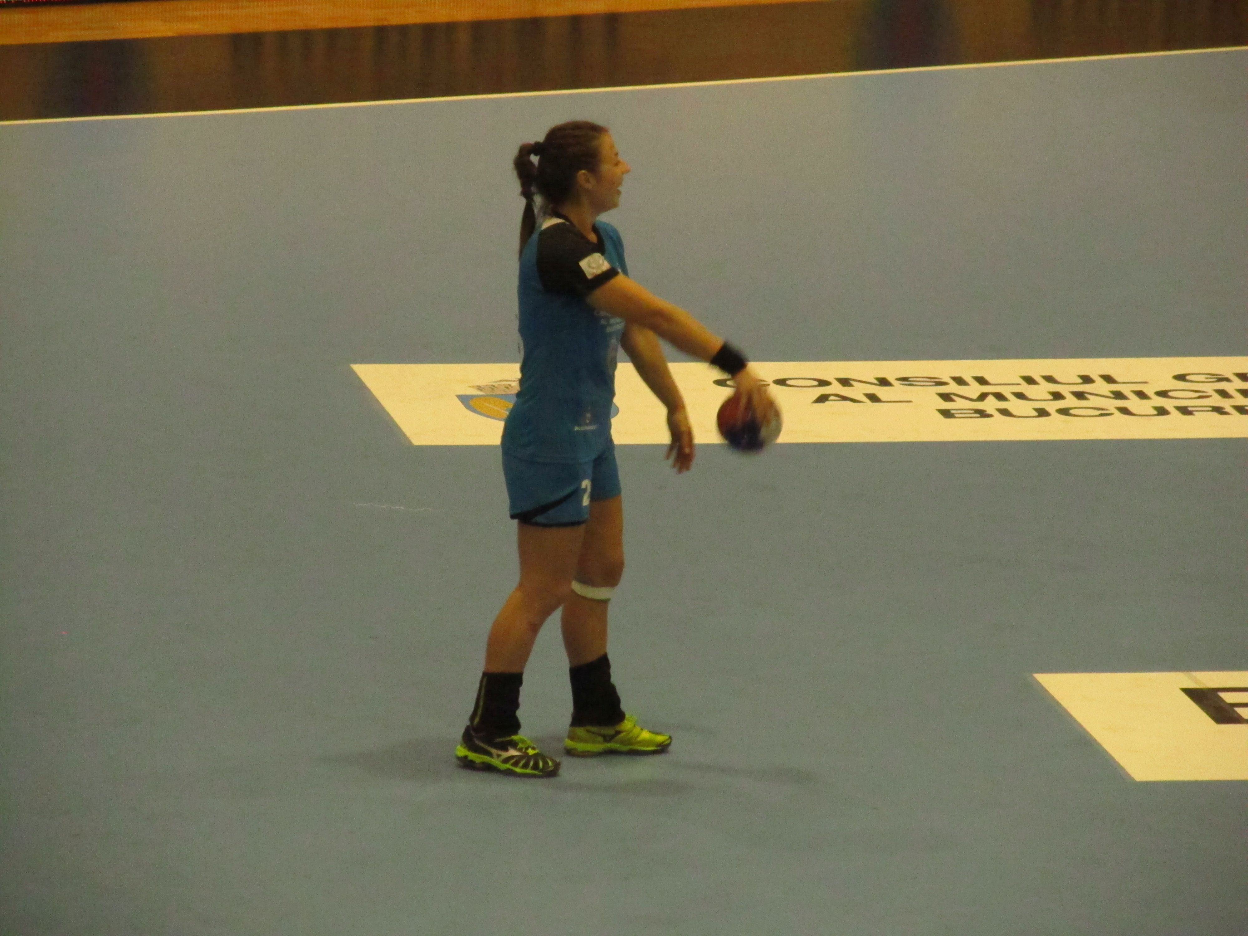 Iryna Glibko at Bucharest Trophy 2014.